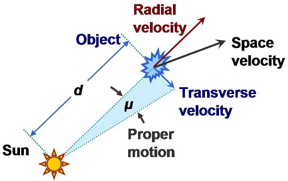 vectors showing relation between an object's proper motion and its velocity